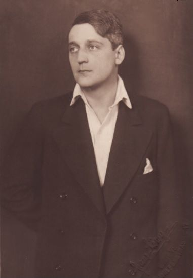 3,5 x 5,5 inches. Raoul Aslan, Actor, director, (b. 1886 Saloniki, d. 18.6.1958 Austria).